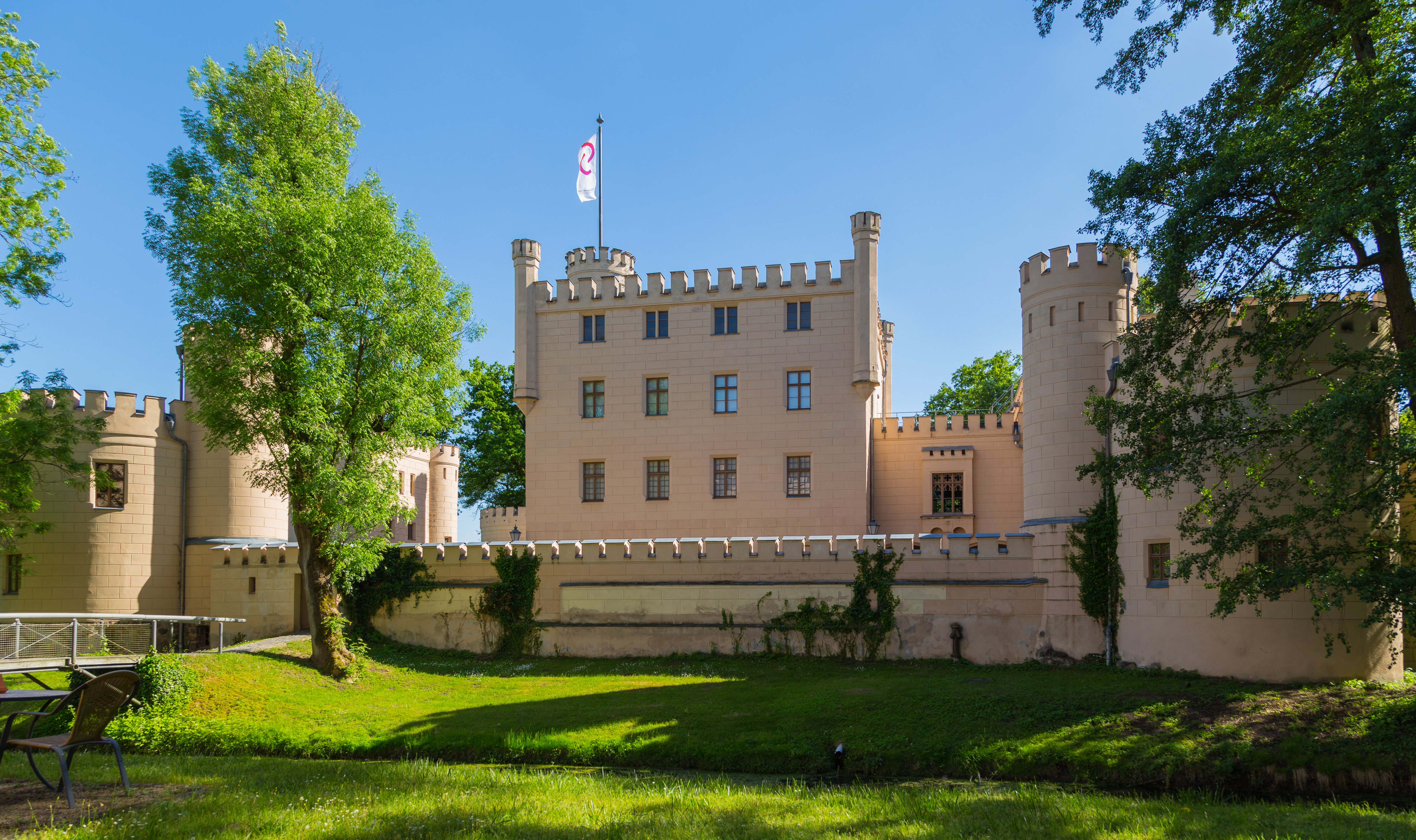 Letzlingen Hunting Lodge (Jagdschloss Letzlingen) in Letzlingen, district of Gardelegen, Altmarkkreis Salzwedel, Saxony-Anhalt, Germany. The Jagdschloss is now used as a museum and a hotel and restaurant (Schloßhotel Letzlingen). It is a listed cultural heritage monument.